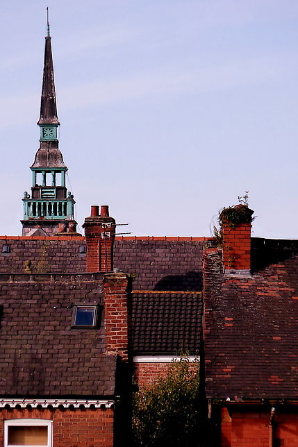 The bell tower of former Greenheys School in Moss Side, Manchester. Greenheys School now functions as an adult education centre. It is a Grade II listed building. This photo is taken from Ruskin Avenue.